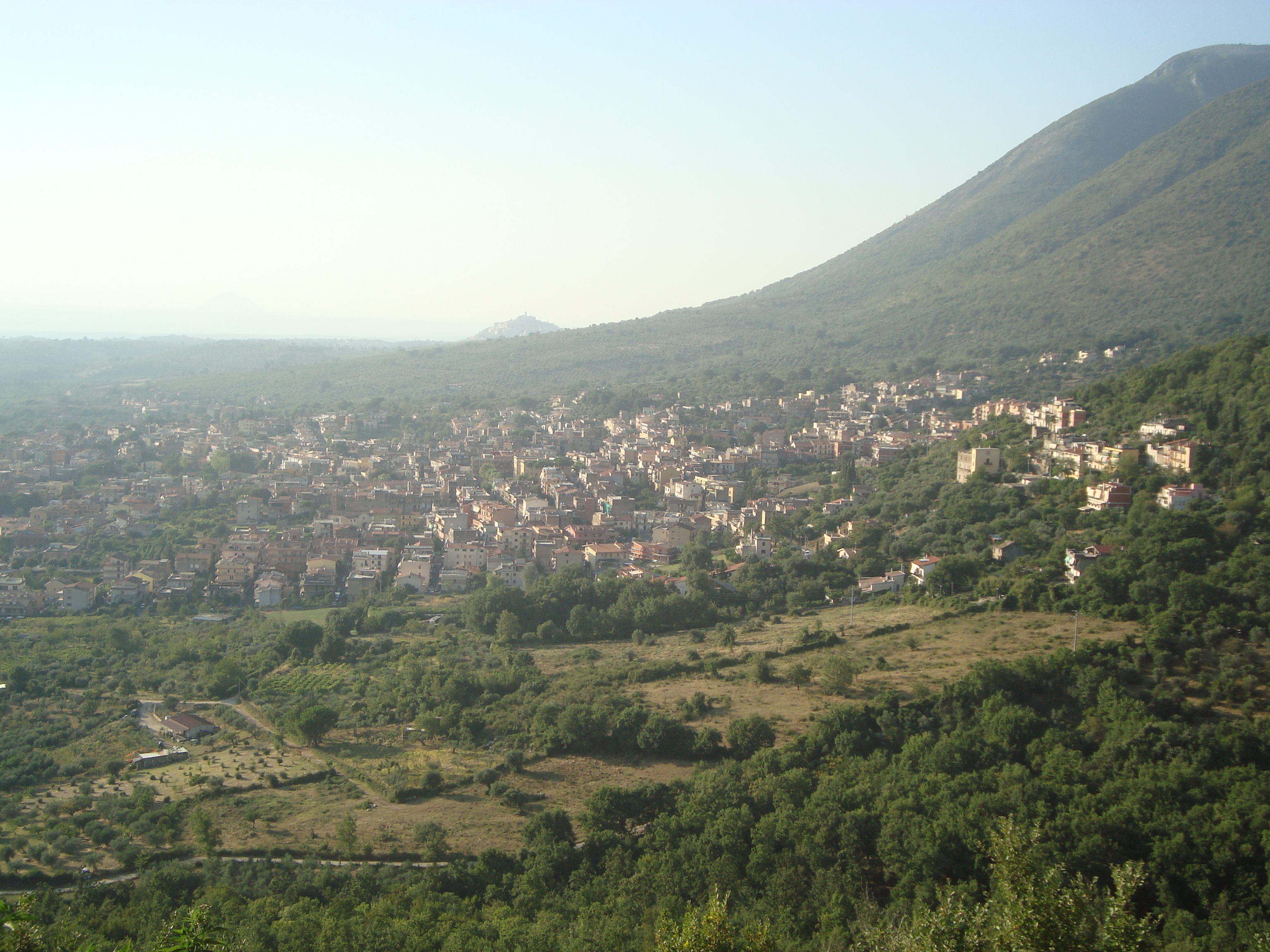 General view of Marcellina in Lazio, Italy